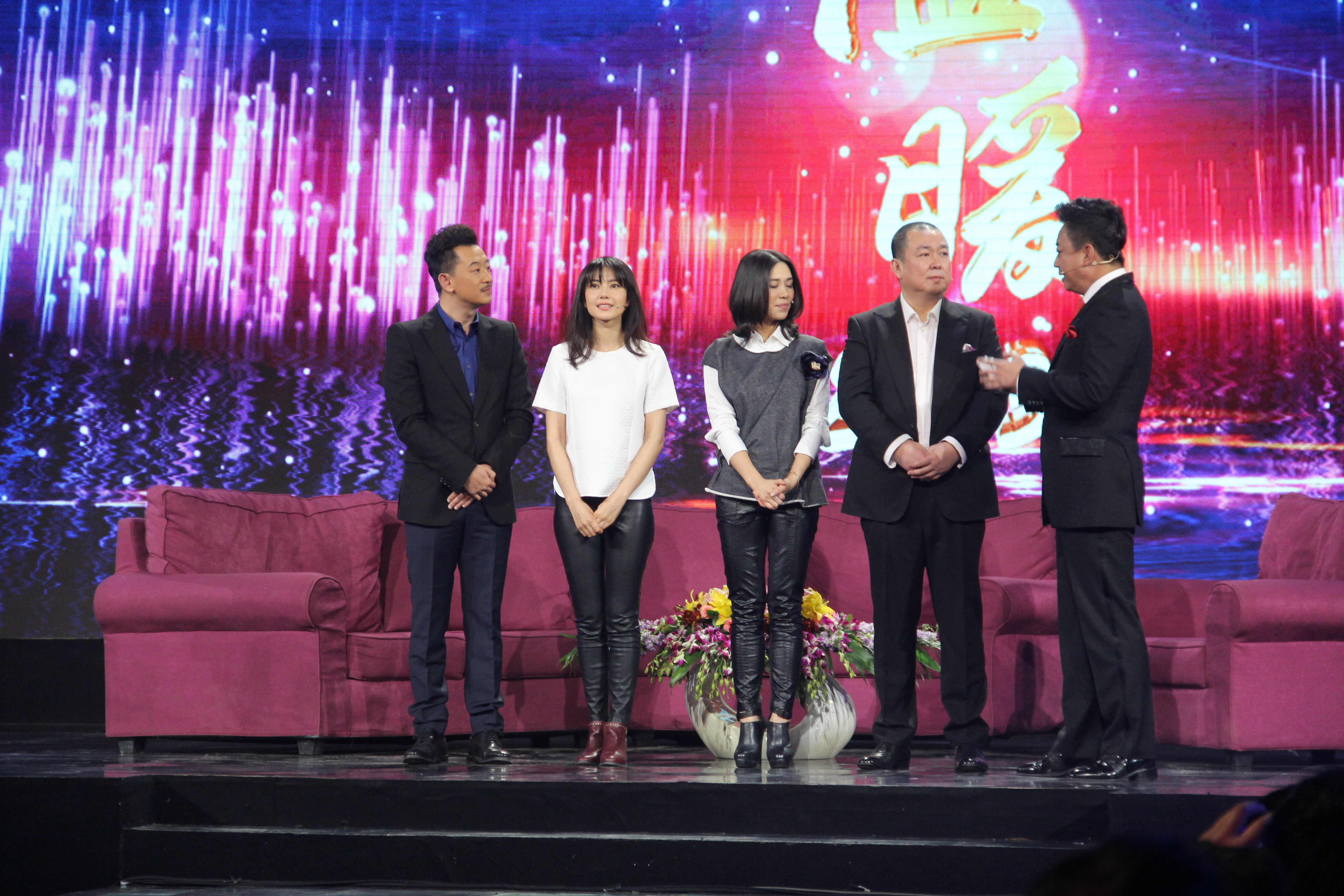 This photo was taken during the filming of Chinese talk show Art Life. In this episode, cast and director of popular TV drama We Let Married were invited.中文（中国大陆）: 这张图片于《艺术人生》的片场拍摄，这集邀请了《咱们结婚吧》的演员和导演。